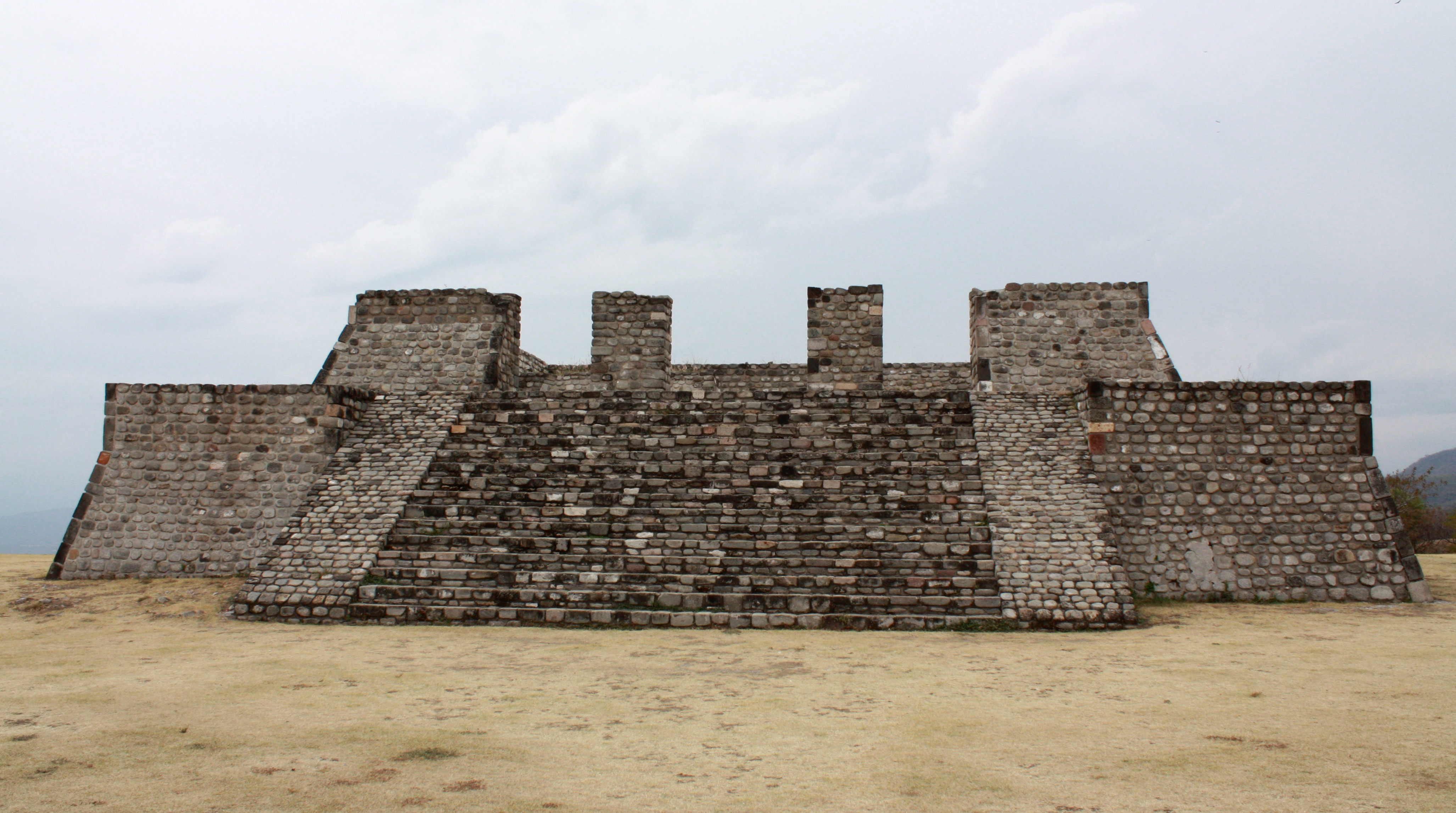 West pyramid on Xochicalco's Plaza de la estela de los dos glifos